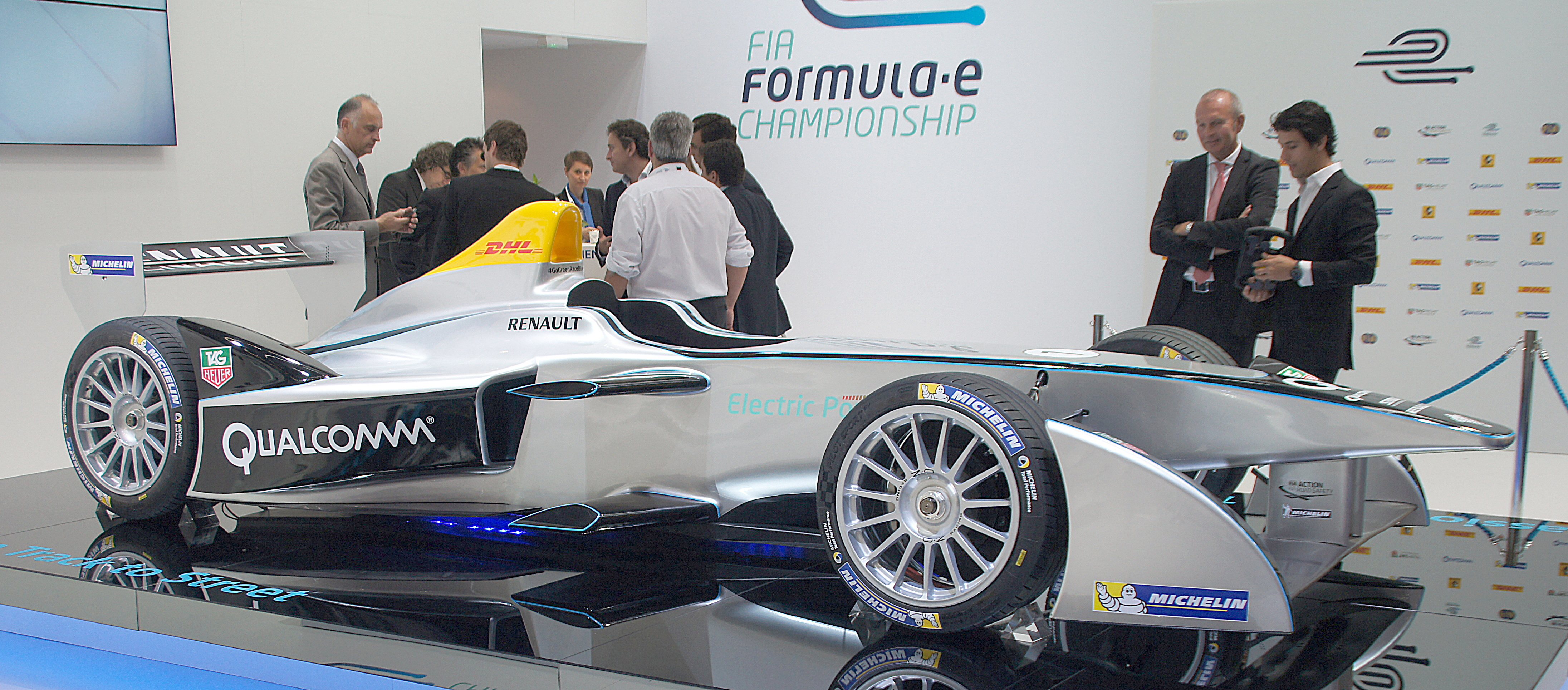 World premiere of Spark Renault SRT_01 E at Frankfurt International Motor Show, September 10, 2013. Including also the official formula E test driver, Lucas di Grassi (rightmost, with the steering wheel in his hands).